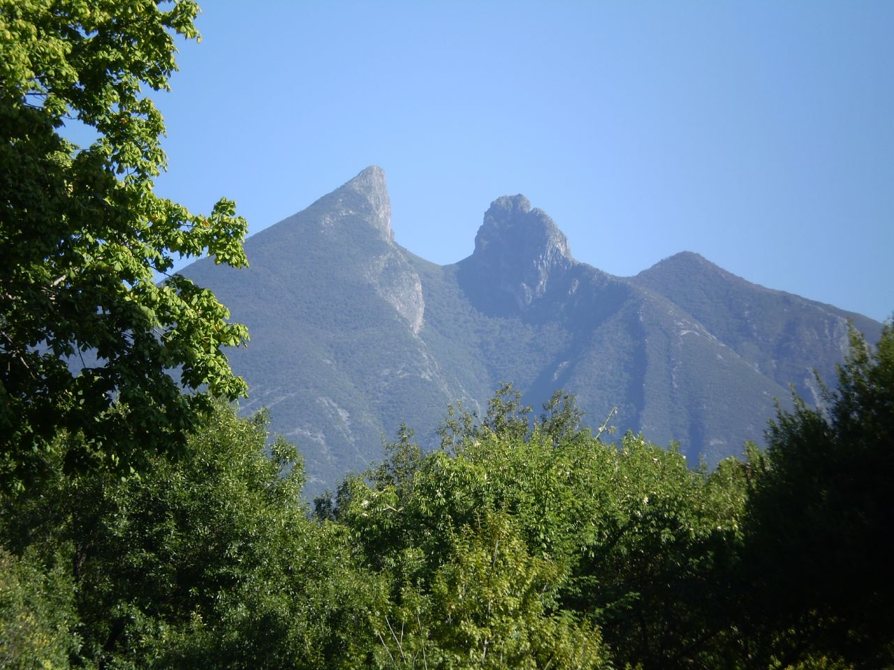 Peak of "La Silla" Mountain. In Monterrey Mexico.